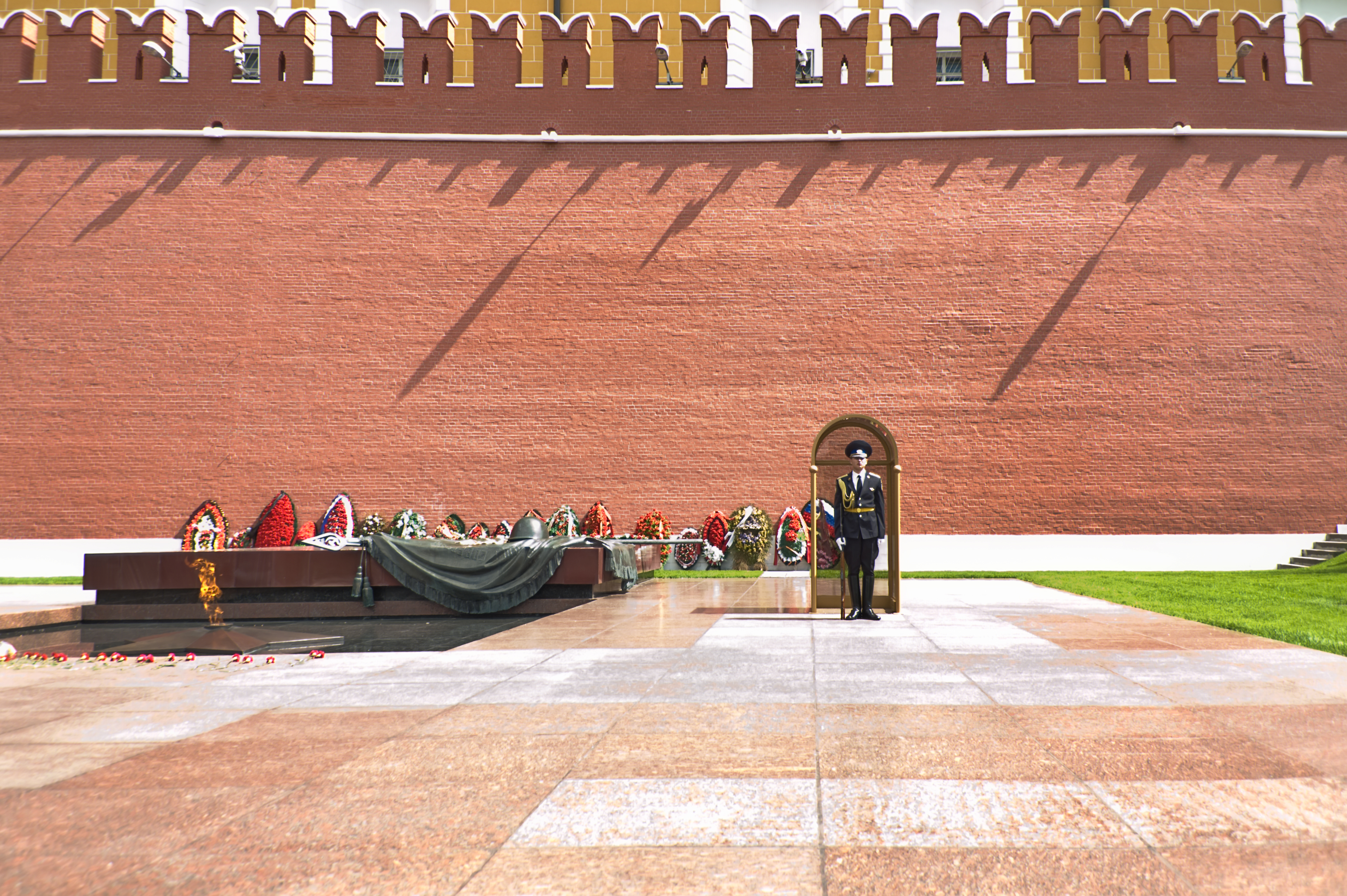 The monument at the tomb of the Unknown soldier